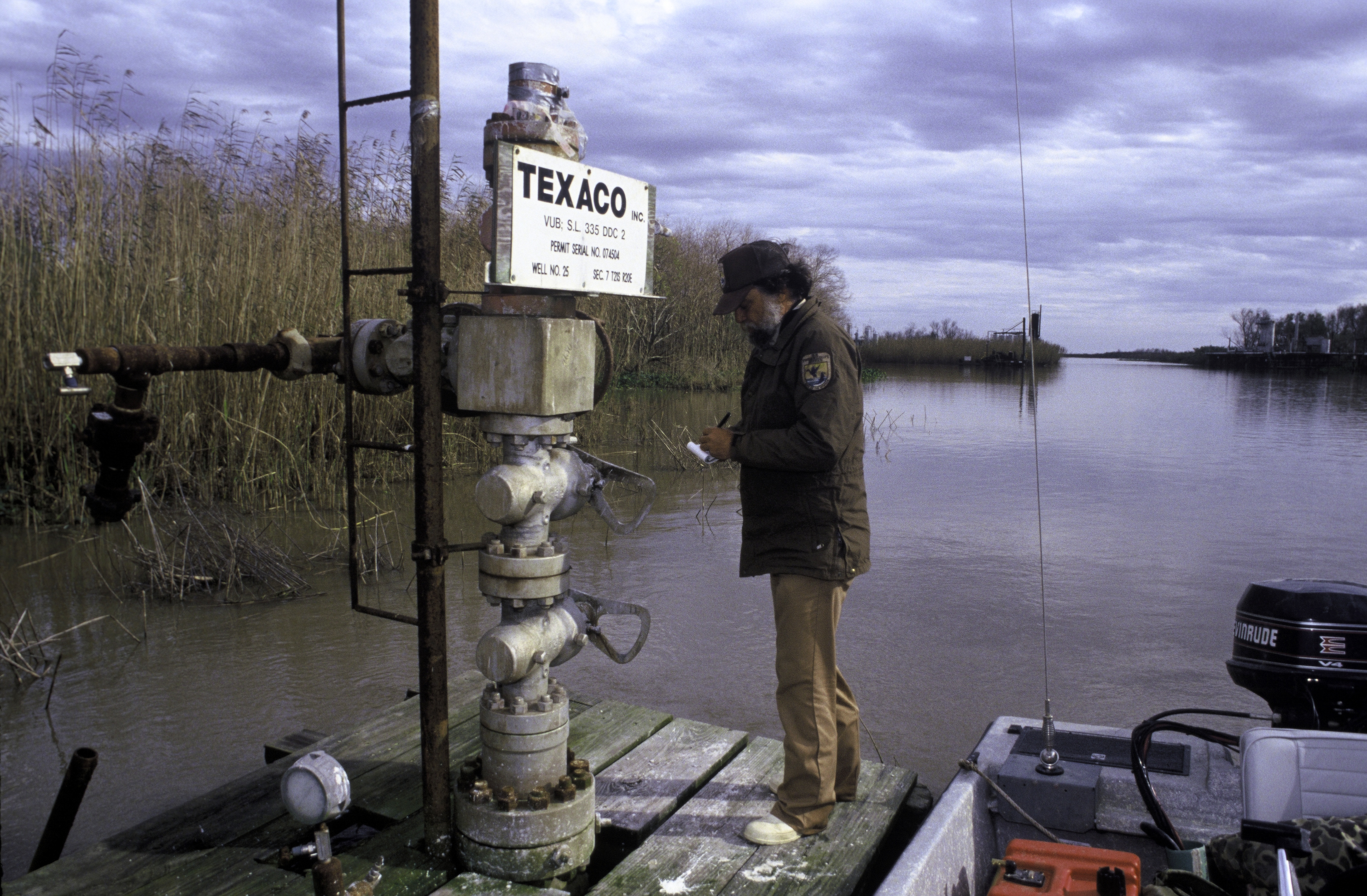 Checking oil well on Delta National Wildlife Refuge Transferred from en.wikipedia to Commons. (Original text